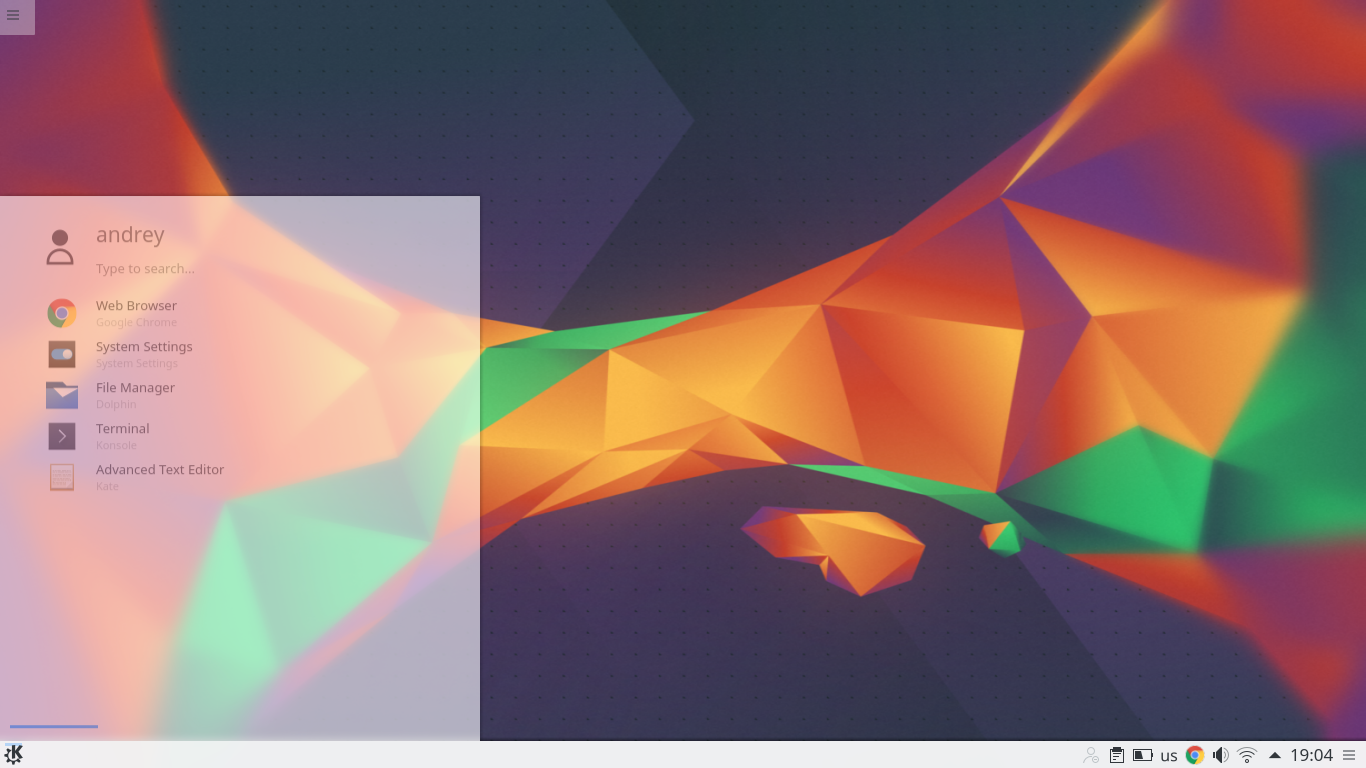 Screenshot of Kubuntu 16.04